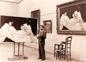 Lau_Khe-siong in Paris with copy of Manet's Olympia